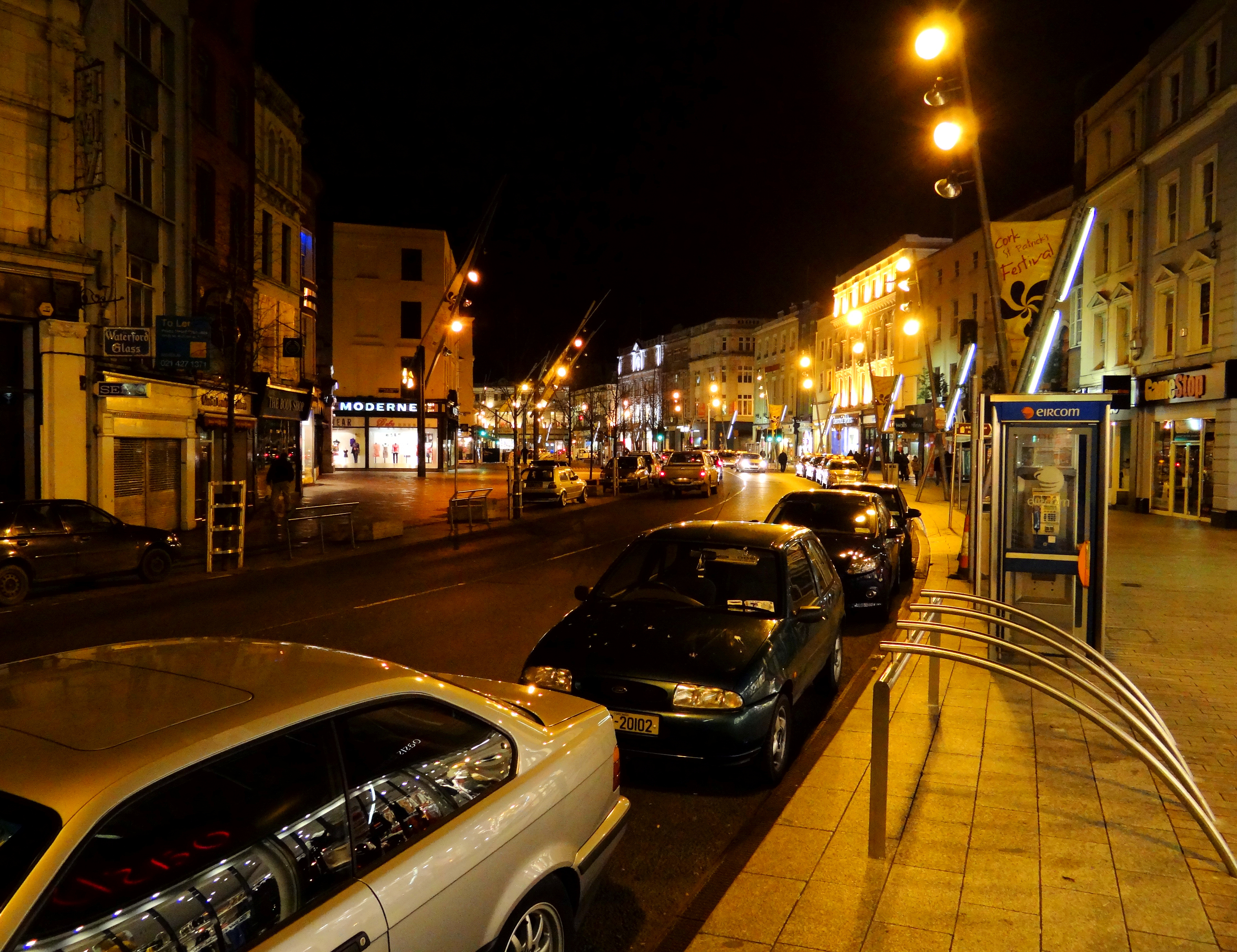 Saint Patrick's Street seen towards the east from near the corner of Princes Street.